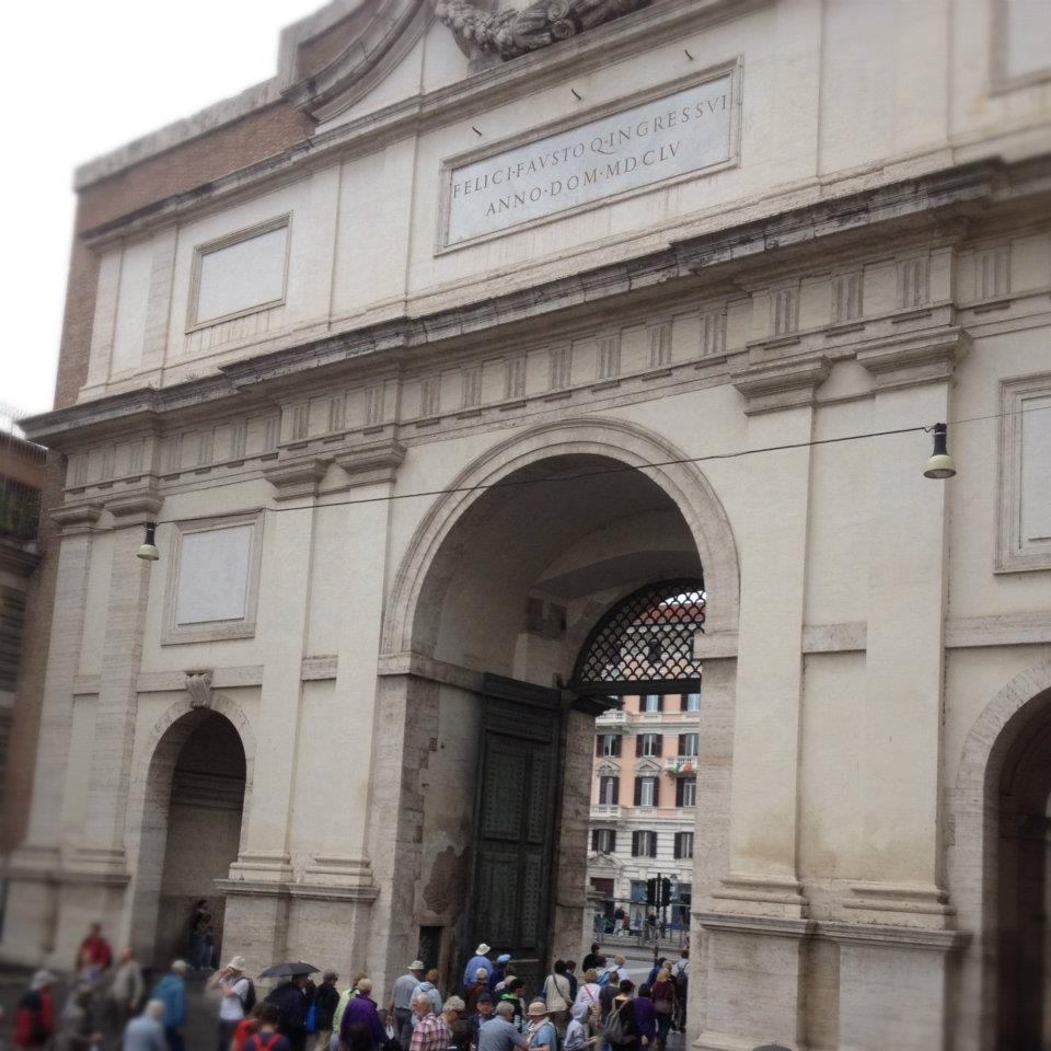 Porta del Popolo. A gateway wall at Piazza del Popolo